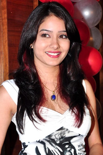 lina at Punar Vivah celebrates successful 100th Episodes